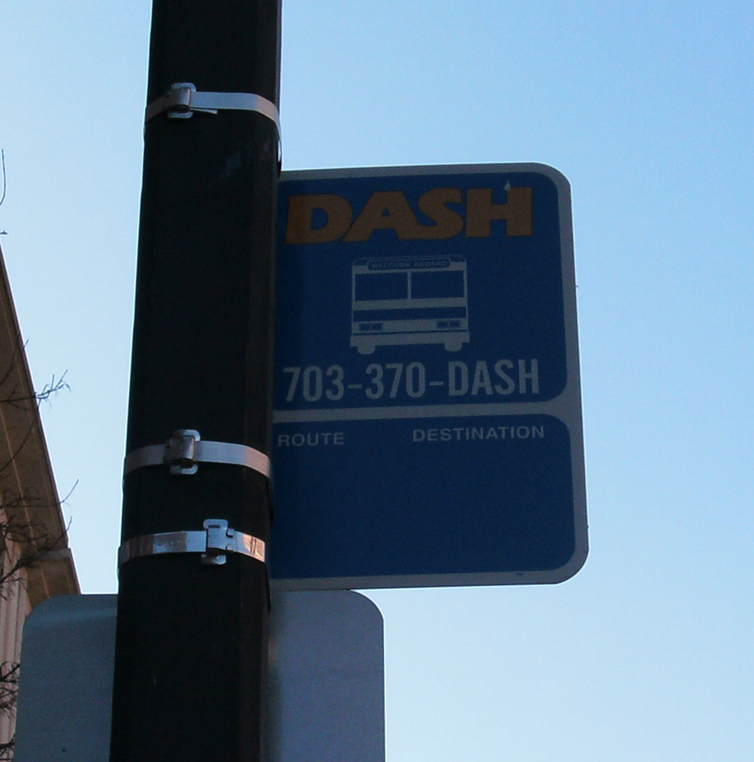 CAlexandria, VA.